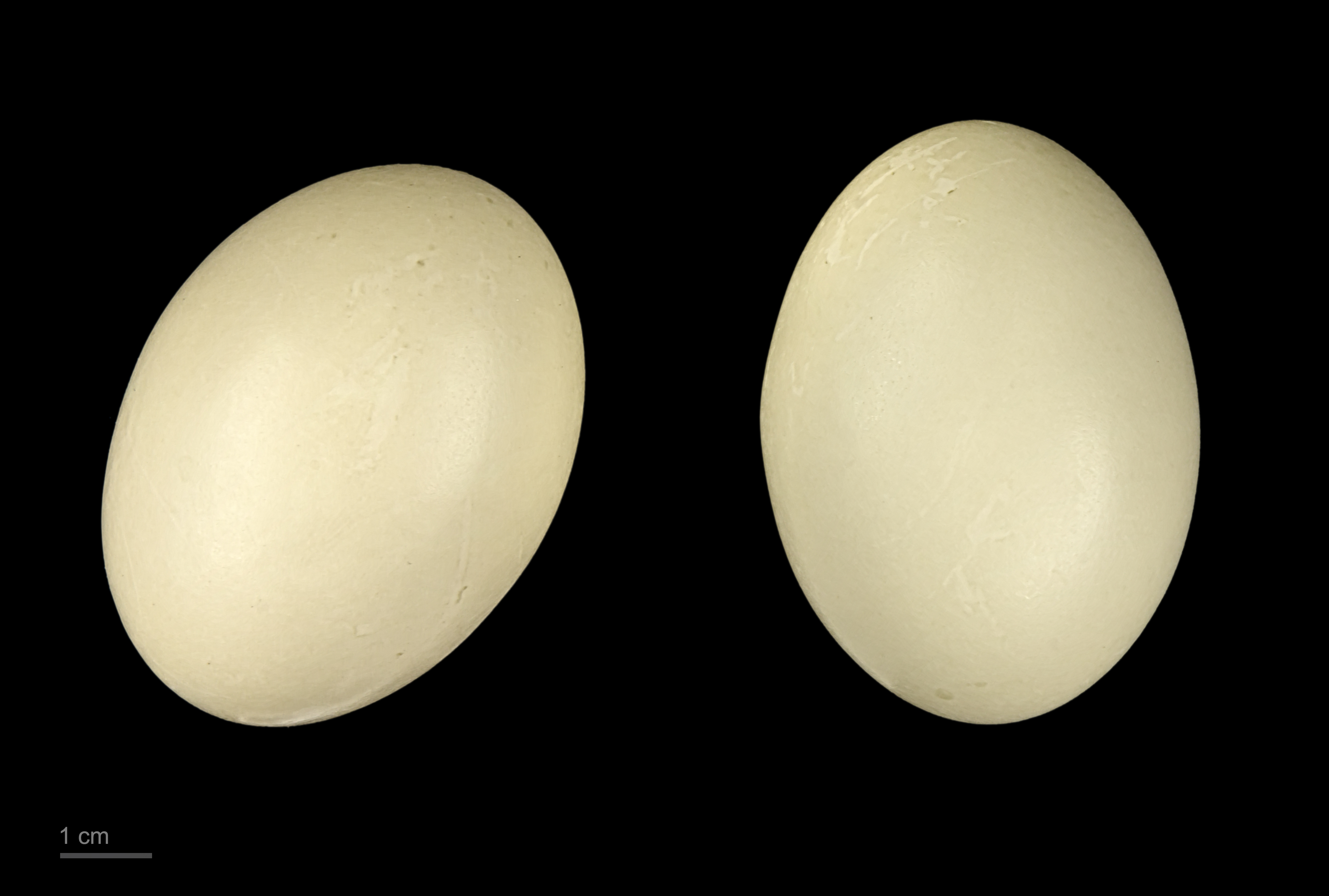 Eggs of red-crested pochard Two specimens of the same spawn ; collection of Jacques Perrin de Brichambaut.